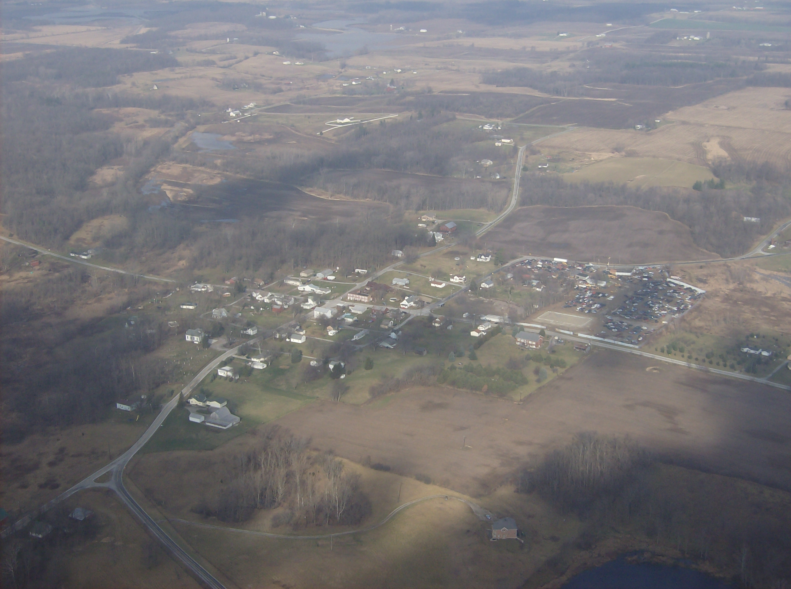 Aerial view of Springhills, an unincorporated community in northwestern Harrison Township, Champaign County, Ohio, United States, taken from Diamond Eclipse light airplane. Picture taken from an altitude of 2,400 feet MSL at an bearing of approximately 306º.